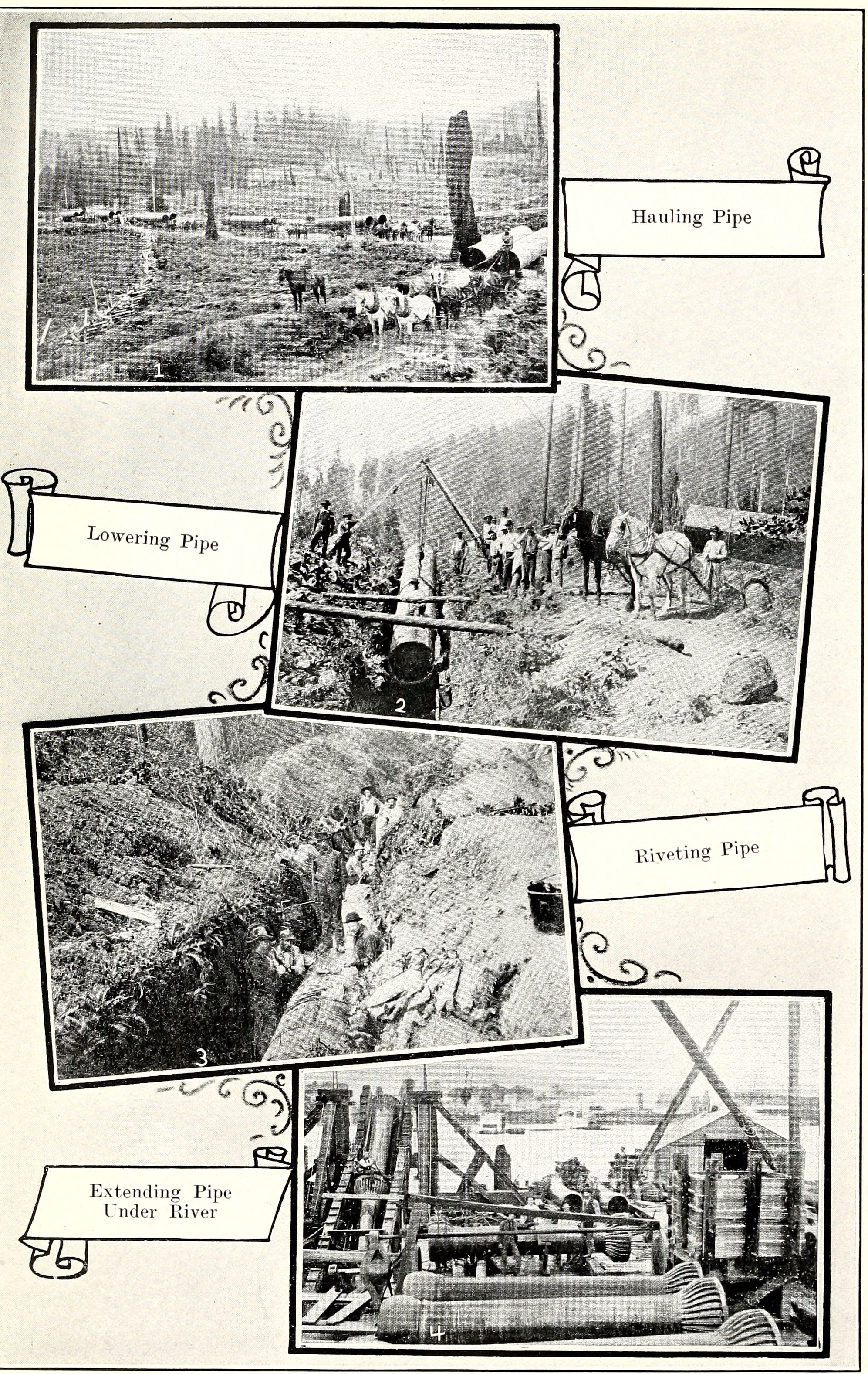 Construction of Bull Run water pipe